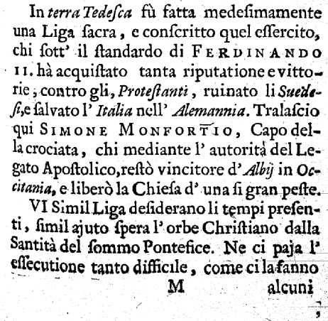 Occitania in a Printed Book in Italian, in Laurens Banck, Bizzarie politiche, over, raccolta, delle piu notabili prattiche di stato, nella chistianita..., Giovanni d'Archerio, alla Franechera, 1658